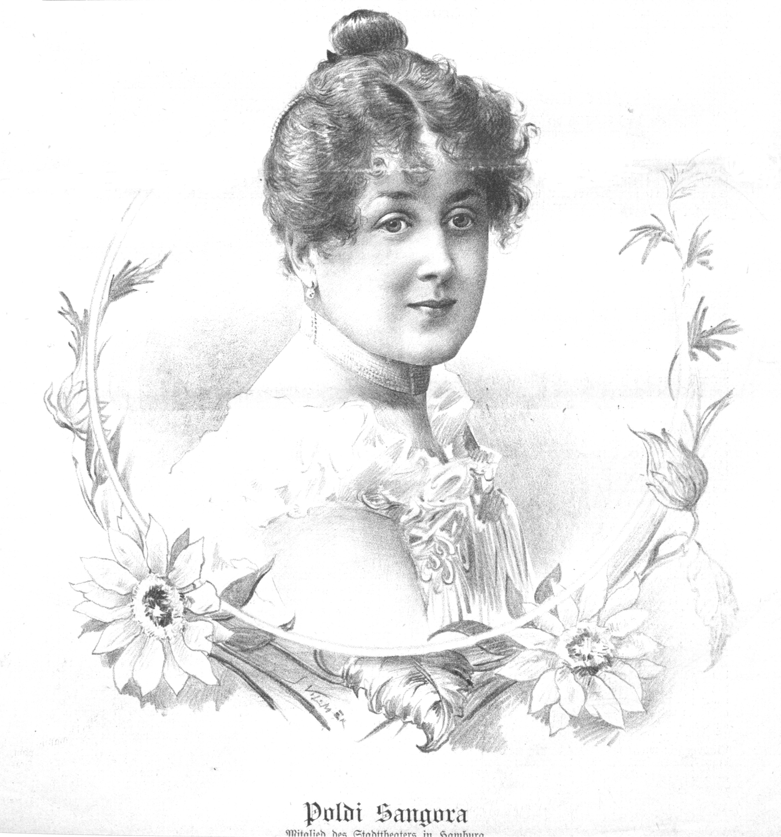 Portrait of Poldi Sangora (1875-??), German actress, member of Hamburg Theatre.